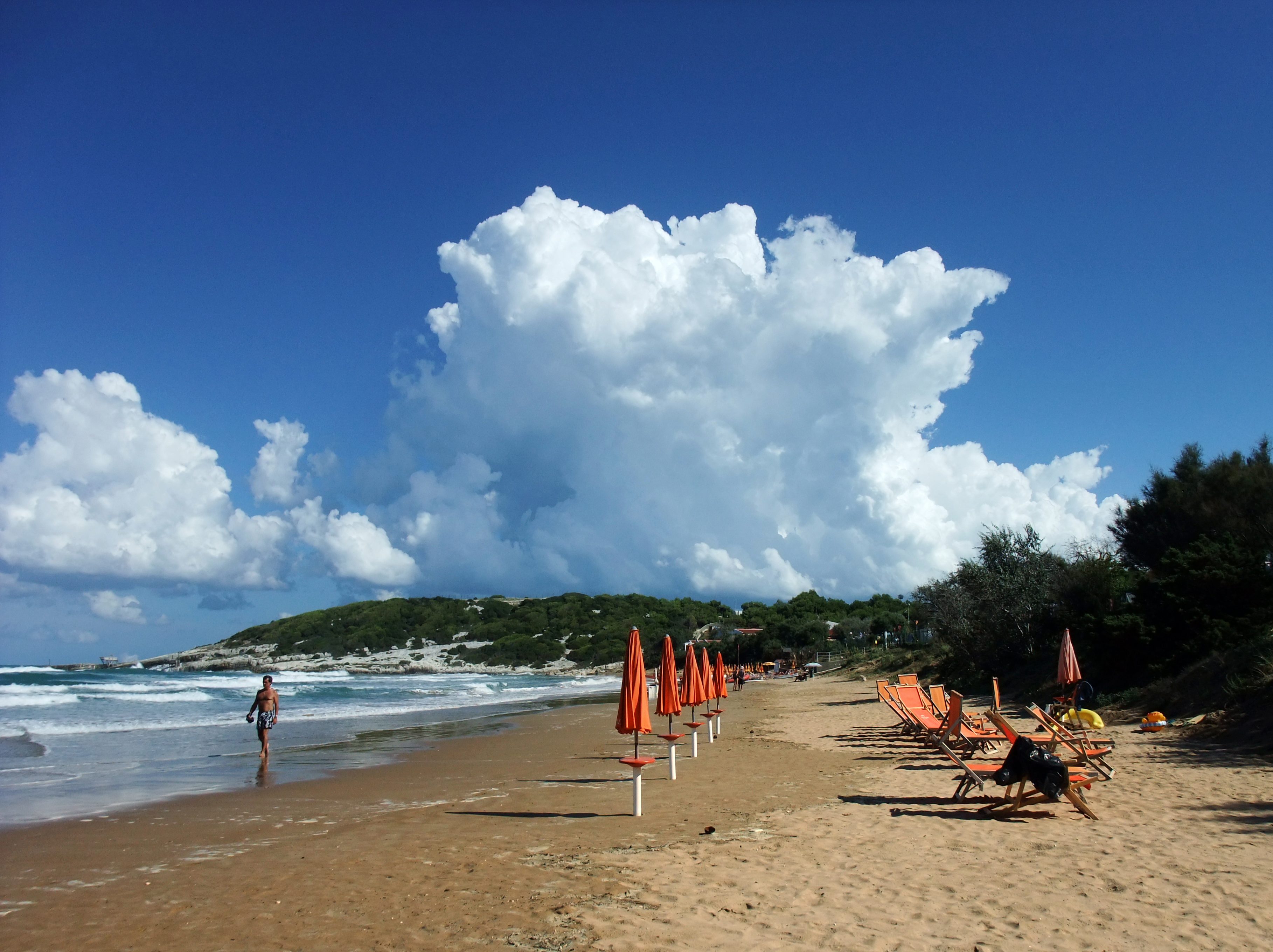 Beach of Sfinale, village south of Peschici in Apulia, southern Italy